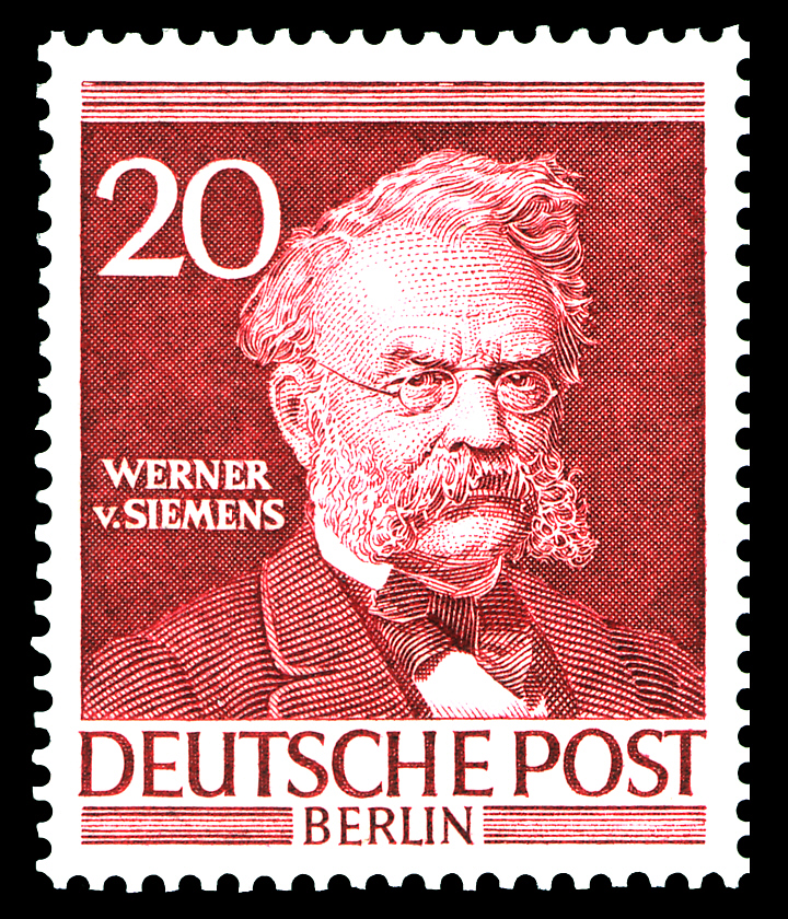 stamp series, men of the history of Berlin I, Werner von Siemens, (1816-1892)